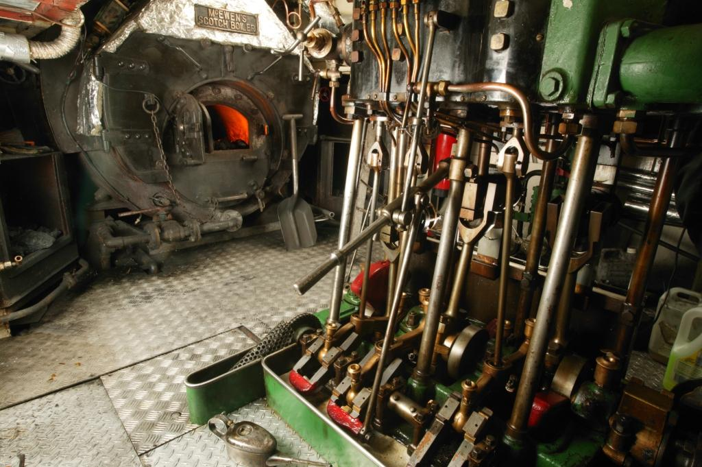 Sissons triple expansion steam engine and McEwans coal fired scotch boiler as installed in SL Nuneham - based at Runnymede on the River Thames. Owned by The Thames Steam Packet Boat Company, part of French Brothers Ltd